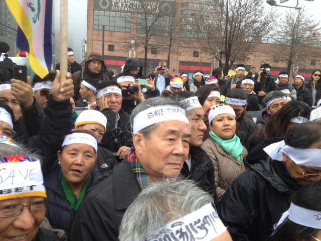 Harry Wu Joins Tibetans and supporters on Human Rights Day